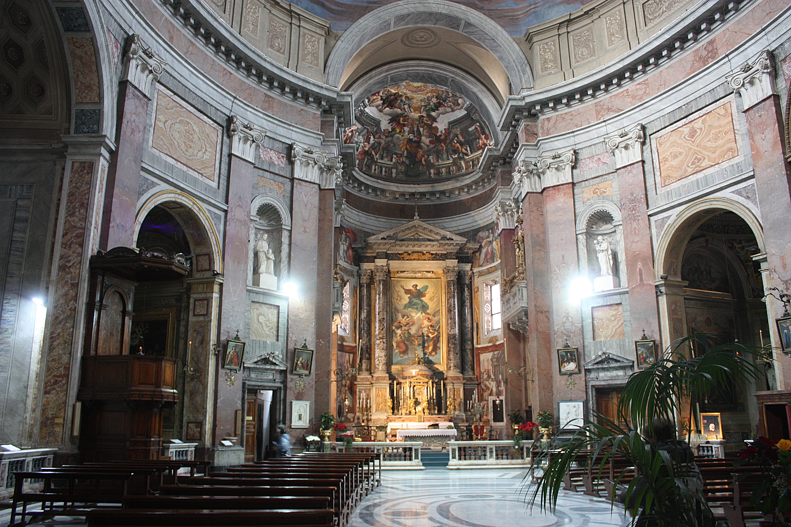 Rome, the church San Giacomo in Augusta, inner view